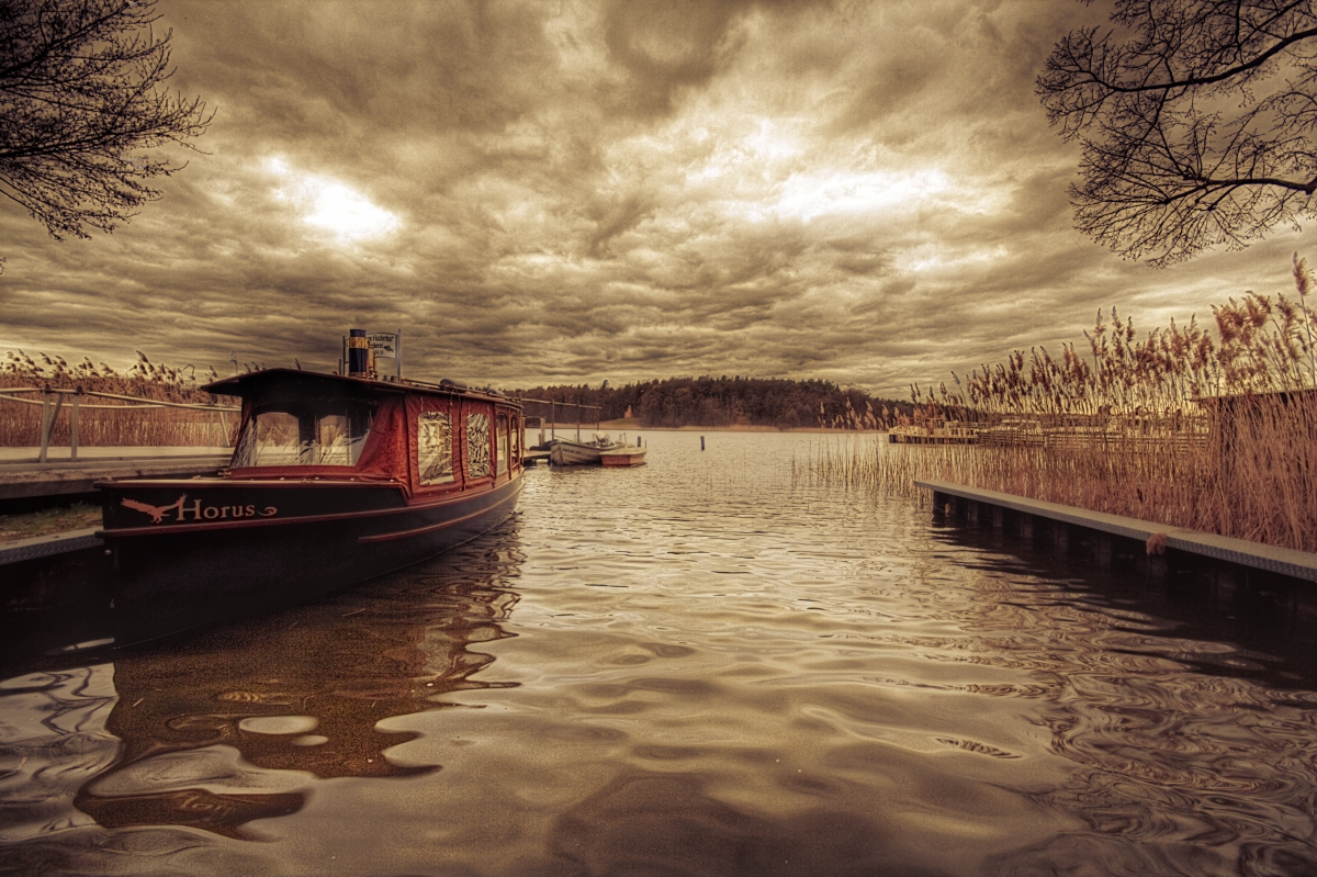 captured in rheinsberg (brandenburg / germany) 'Horus' On Black Most Interesting Pictures Of gari.baldi